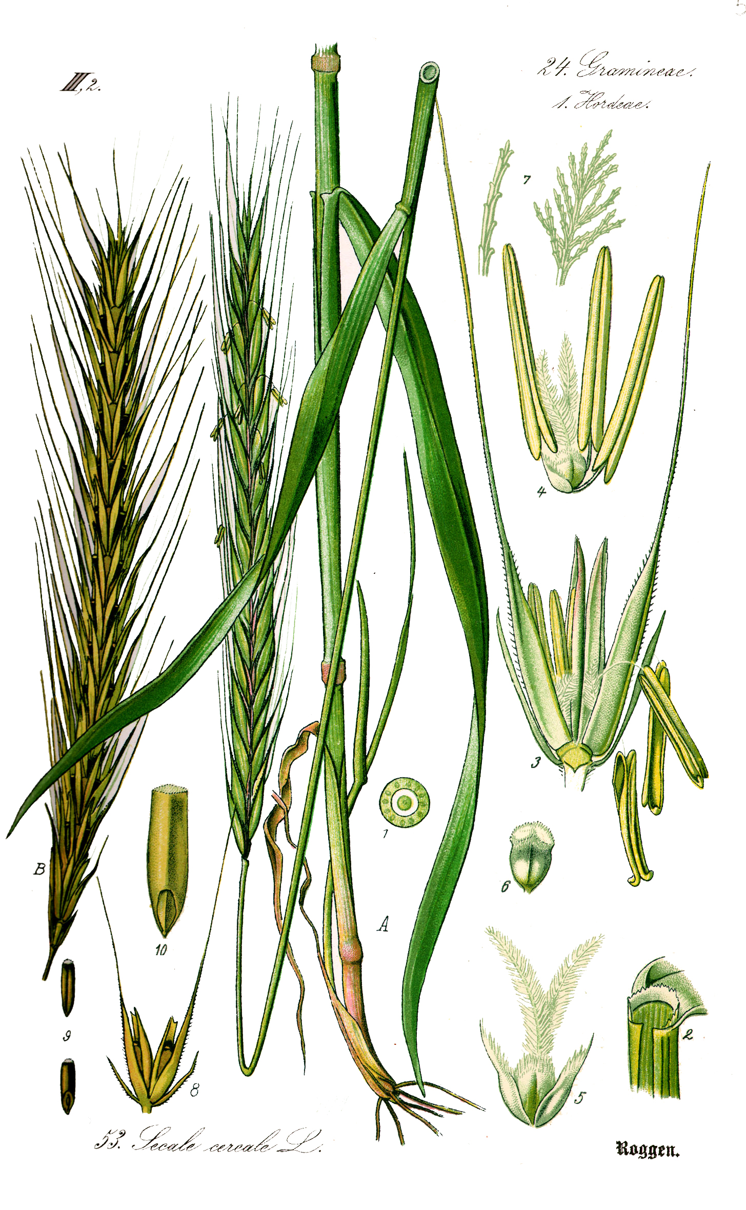 Secale cereale Family: Poaceae